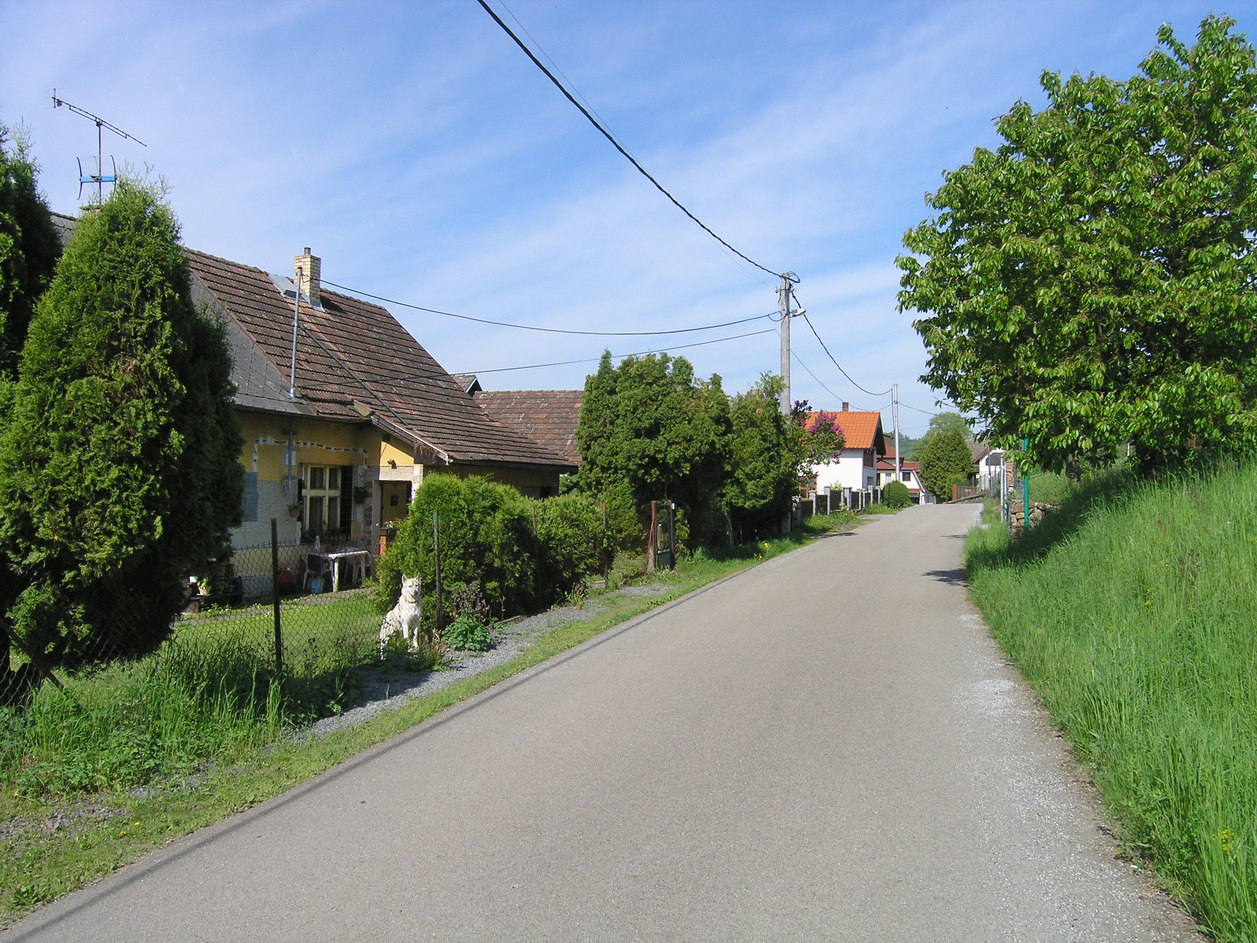 East part of Řehenice, Czech Republic